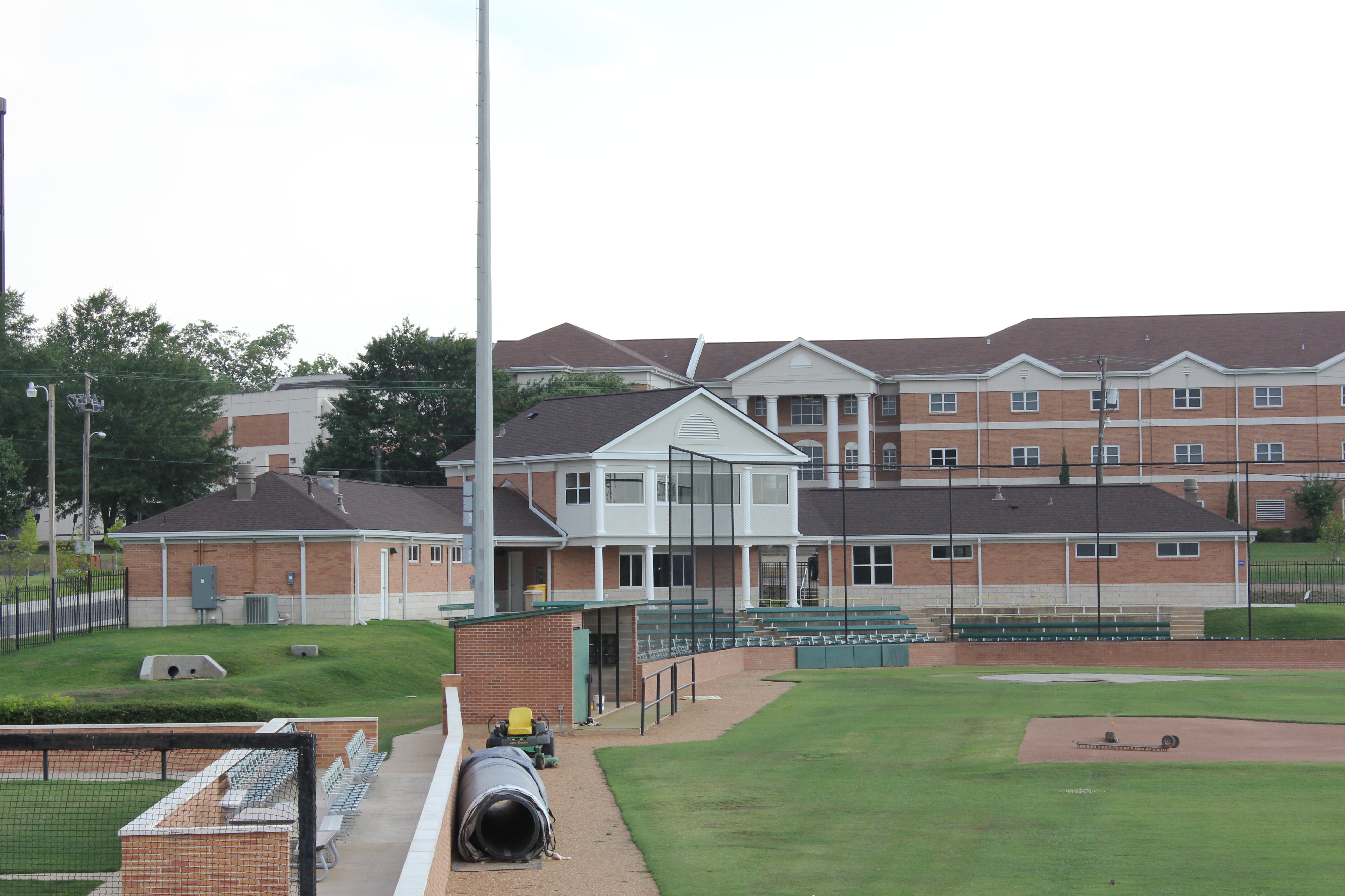 View from Right Field patio of Walker Stadium at Goodheart Field, Southern Arkansas University, Magnolia, Arkansas